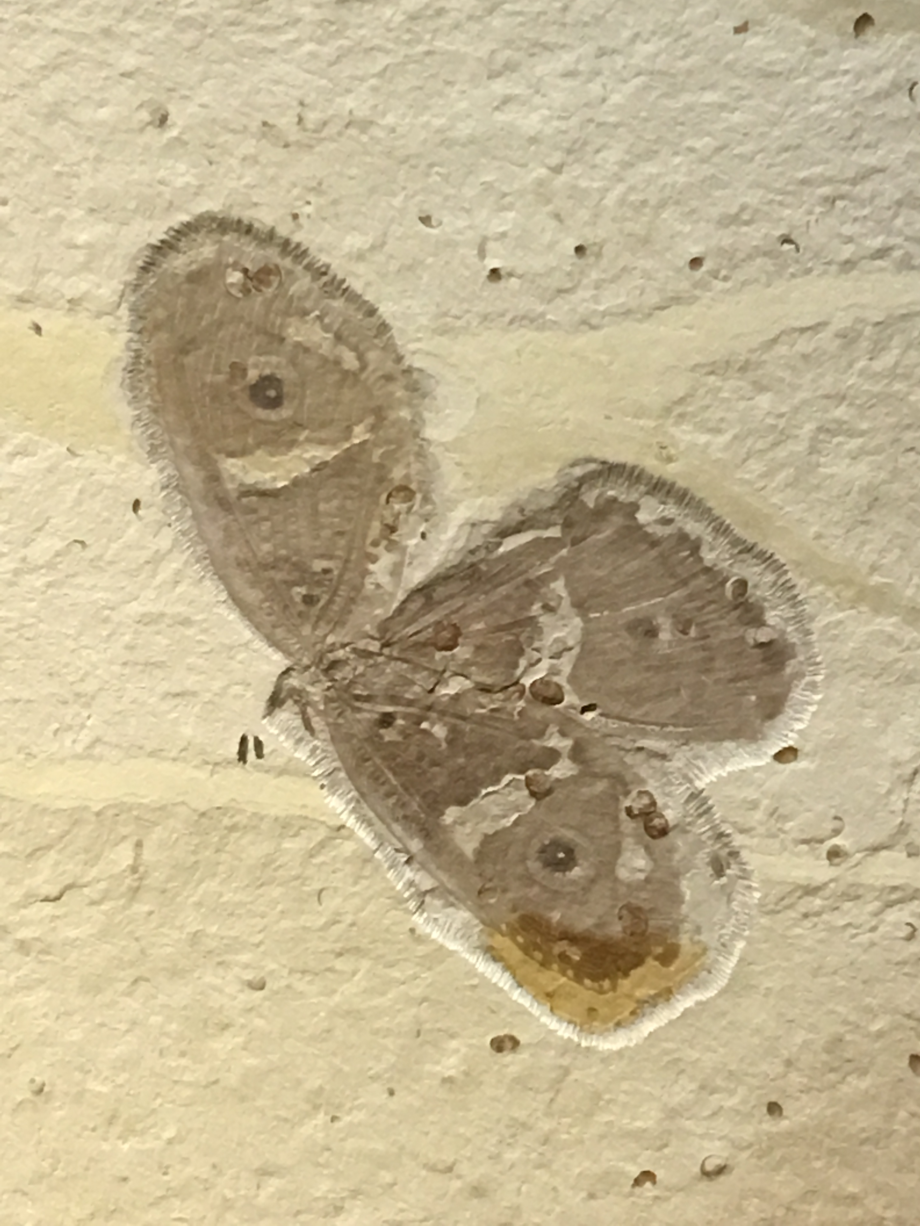 Fossile specimen at the Beijing Museum of Natural History, China.